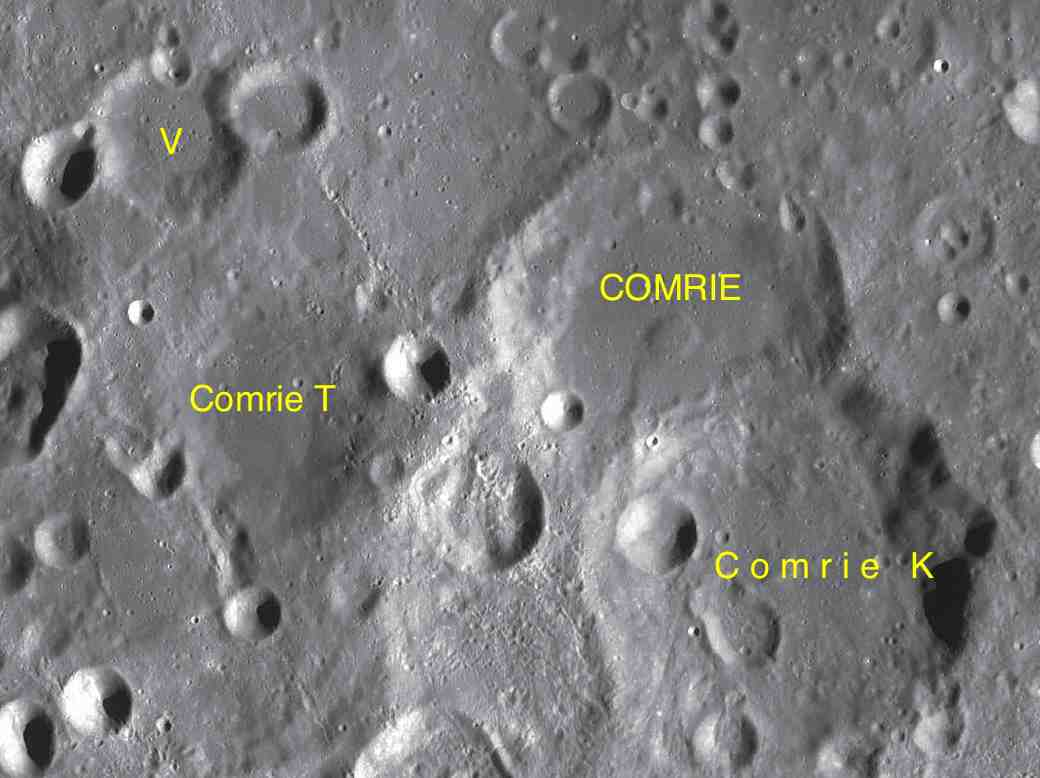 Part of the chart LAC-53 used for the presentation